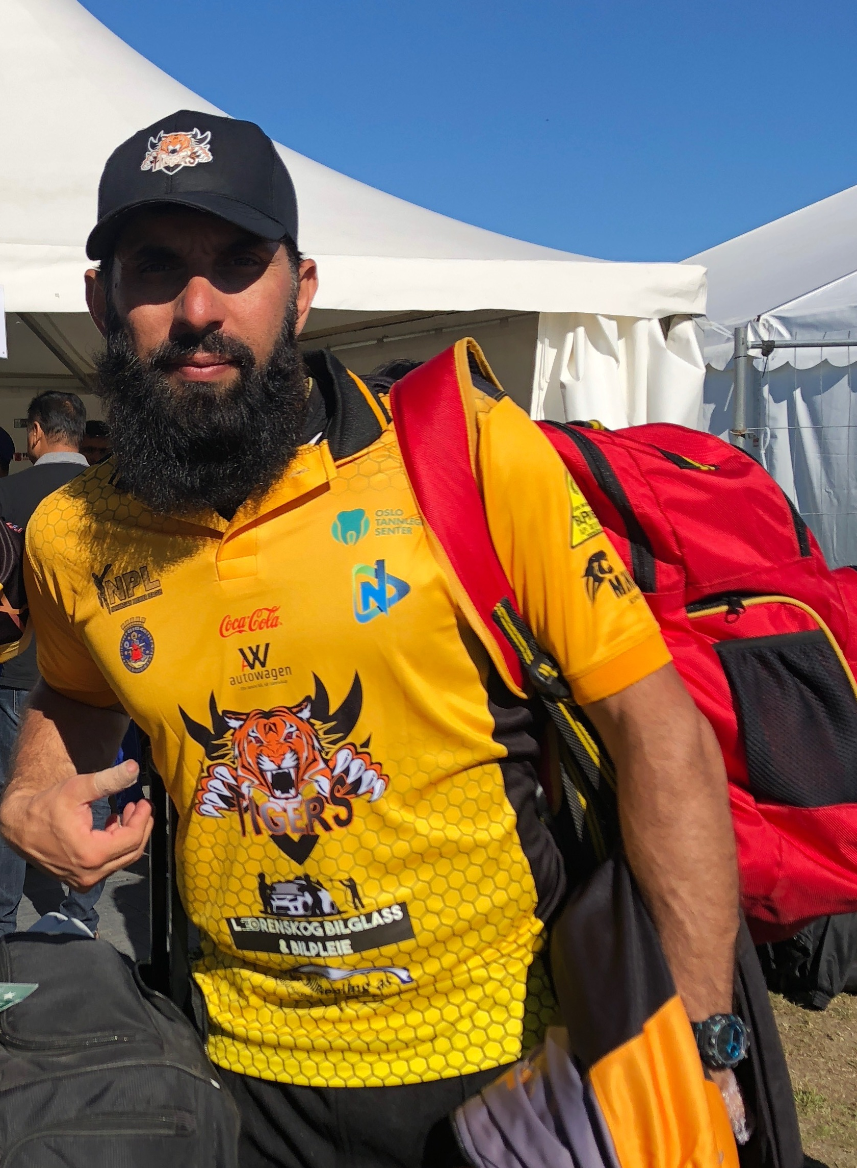 NPL 2018